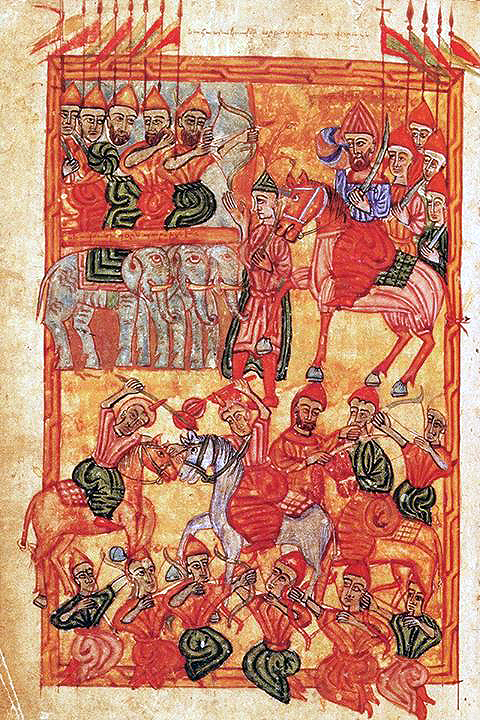 Illuminated Armenian manuscript, Vardananq (Vasn Vardanay ew Hayoc paterazmin) by Yeghishe, 1569. Miniature Battle of Avarayr by Baghesh, Yerevan, Matenadaran, Ms. 1920, no. 250v